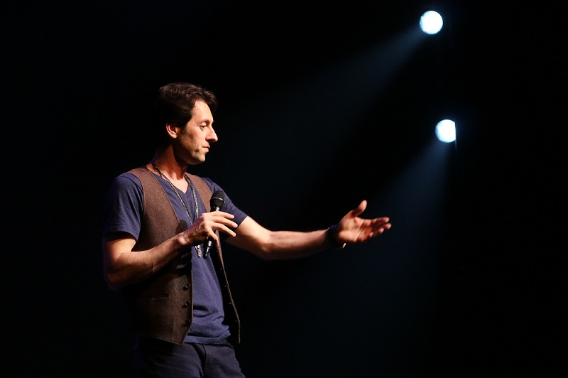 Max Amini - Persian American Stand Up Comedian -- Amsterdam, May 2015. Photo by Persian Dutch Network